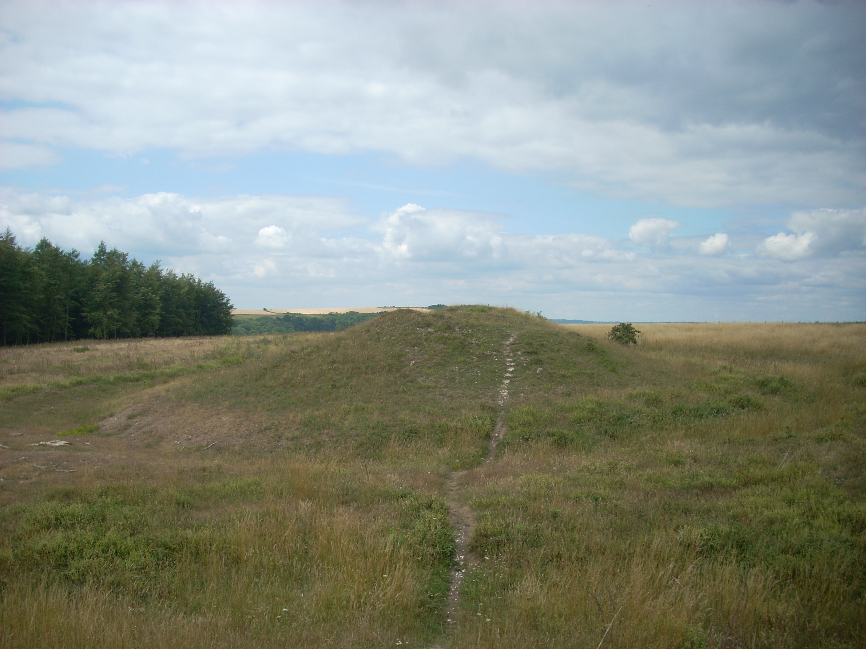 Bronze Age barrow. Devil's Jumps, near Treyford, West Sussex. UK.